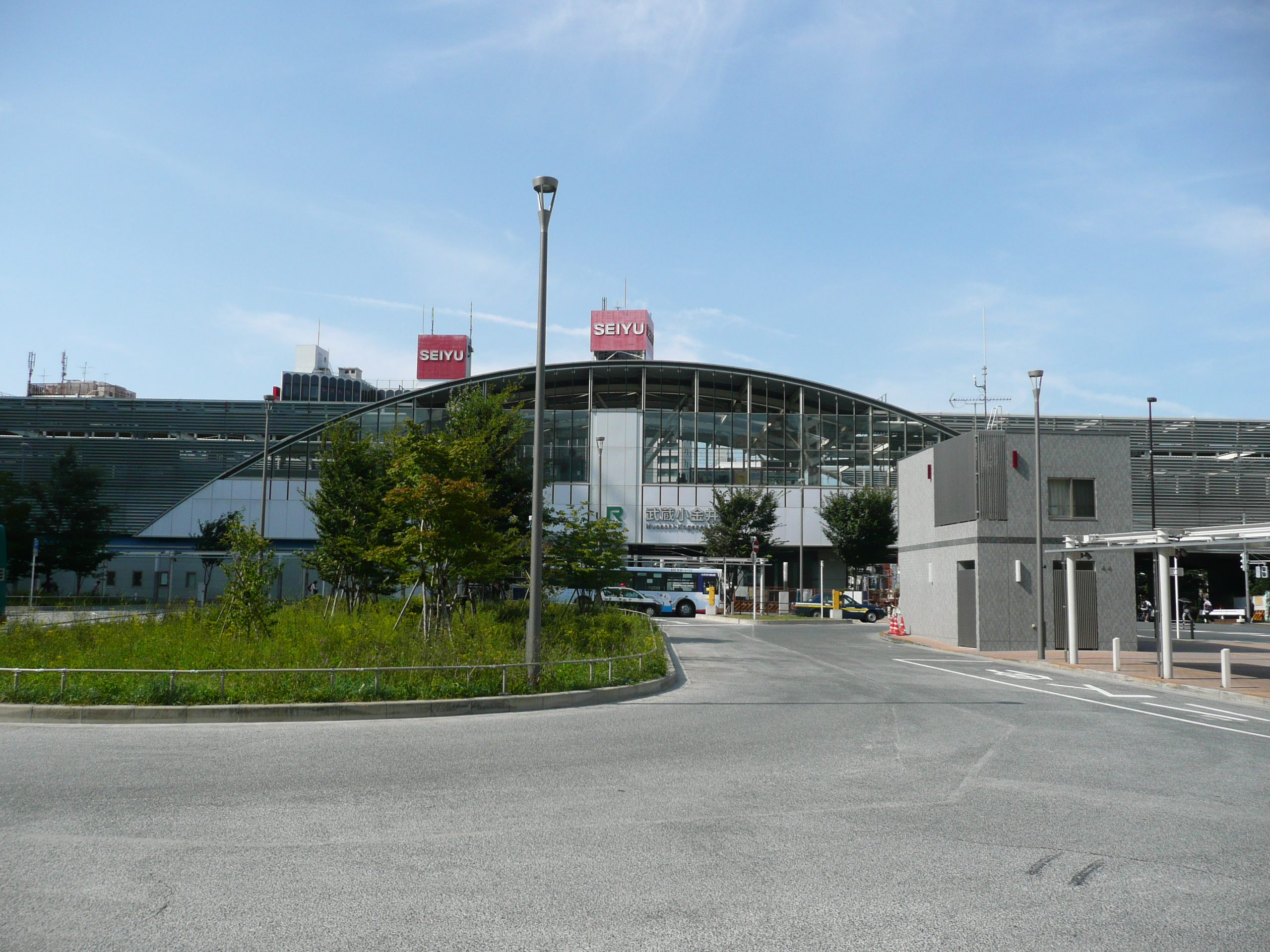 South Entrance of Musashi-Koganei Station